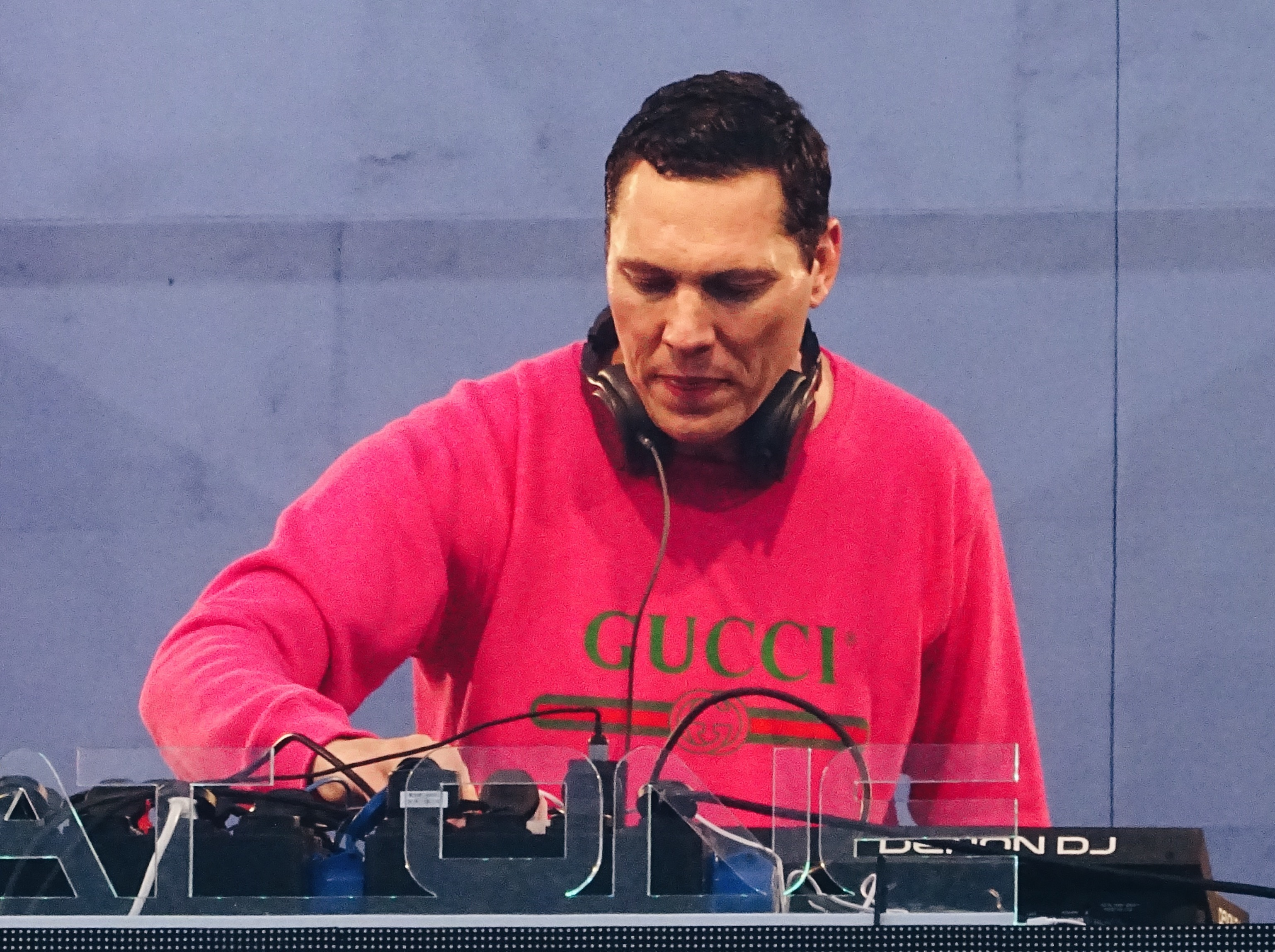 Tiësto playing live at Airbeat One Festival 2017.